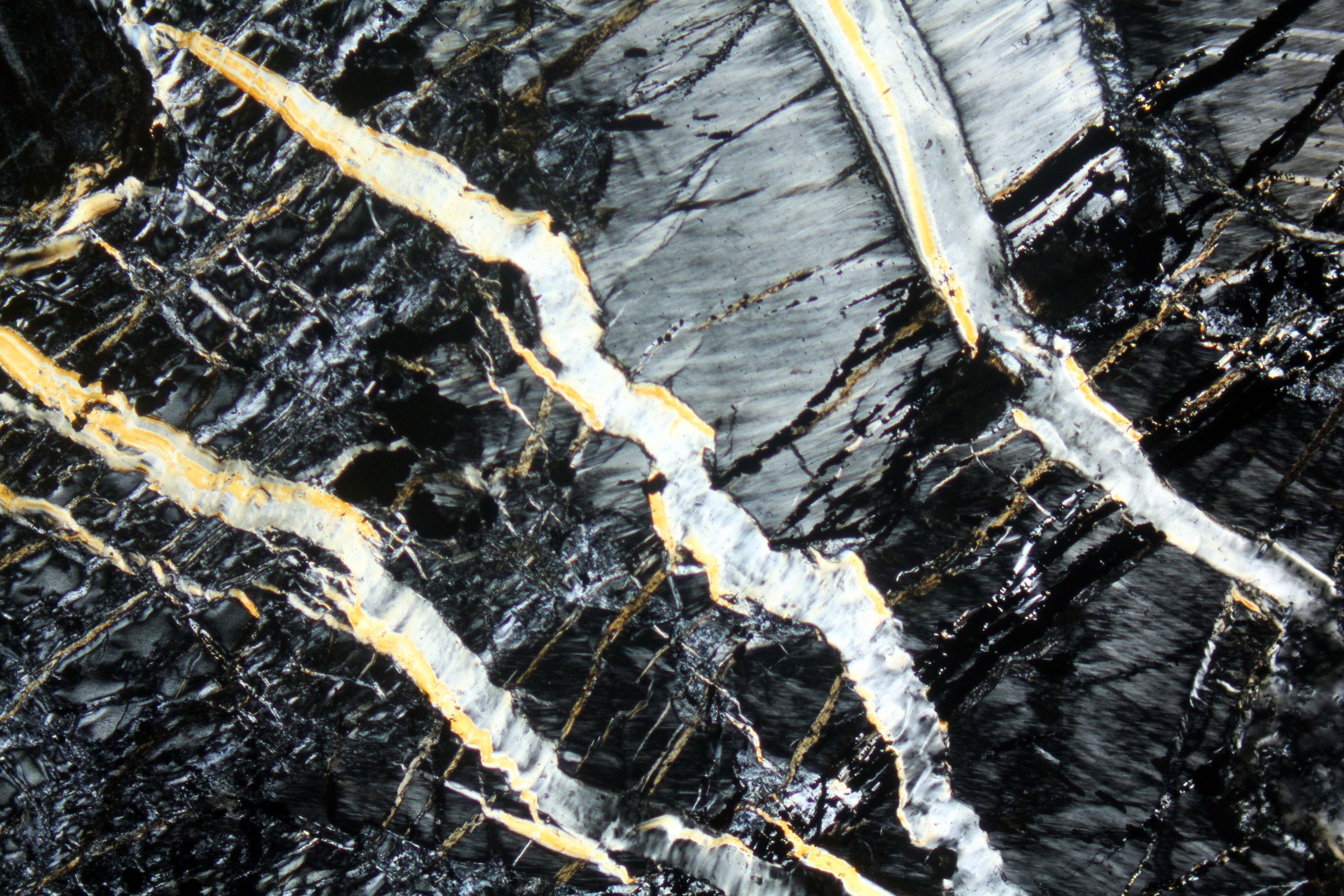 Serpentine veins in a serpentinite rock. Crossed nicols image, magnification 2x (Field of view = 7mm)